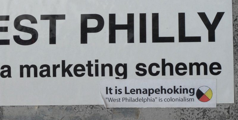 Anti-gentrification sticker in West Philadelphia